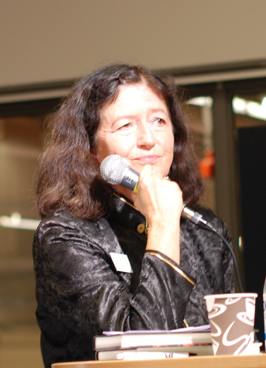 Swedish writer Agneta Klingspor at the Göteborg Book Fair 2010